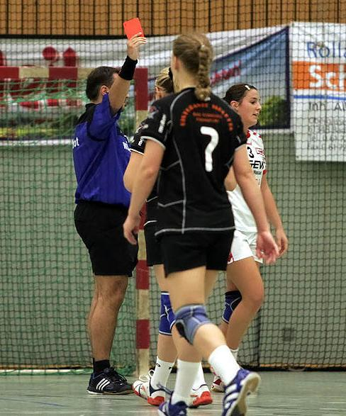 Red Card, shown by the referee during the handball game TSG Ober-Eschbach - HSG Bensheim/Auerbach, on October 29th 2006 in Ober-Eschbach (Germany).